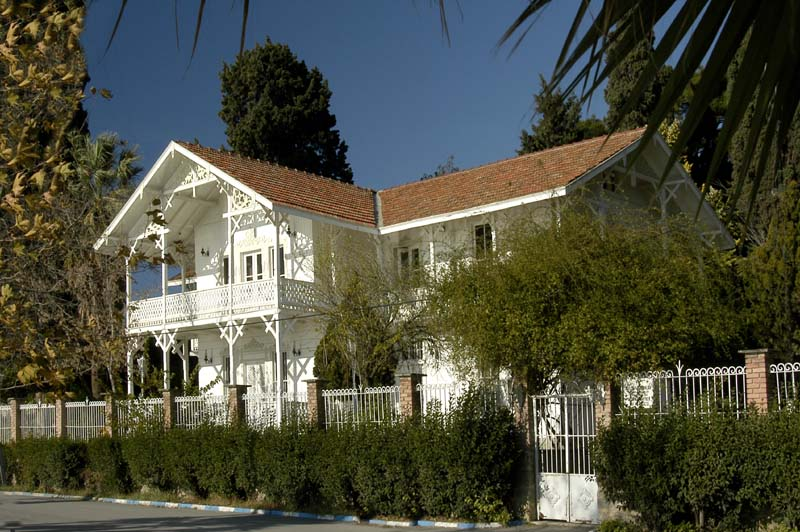 Osman Hamdi Bey Museum in Eskihisar near Gebze, Kocaeli Province, Turkey.